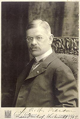 Reginald H. Pierson